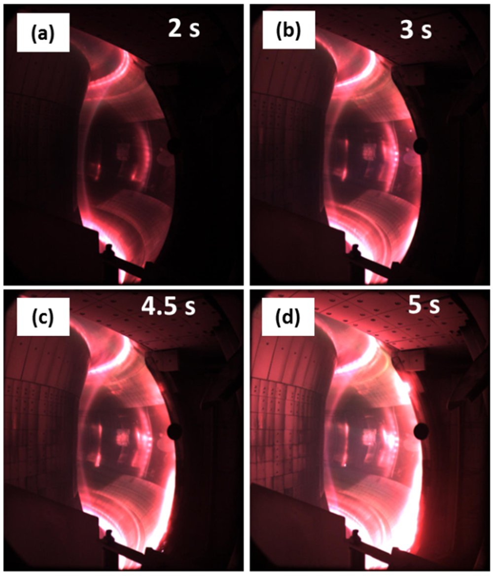 A fast CCD camera (visible wavelength) image of plasma in the EAST Tokamak. Fast camera images of EAST#56943, (a) t = 2 s, (b) t = 3 s, (c) t = 4.5 s, (d) t = 5 s, where (c) and (d) show impurity behaviors after t = 4.5 s.